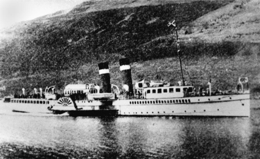 PS Jeanie Deans, built in 1931. During World War Two it was employed as a mine sweeper.